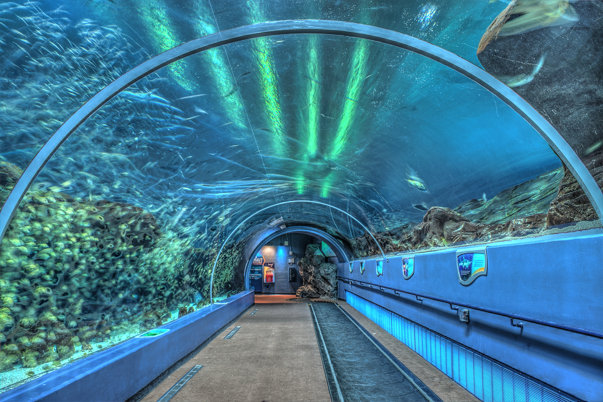 Ocean Voyager exhibit tunnel at the Georgia Aquarium